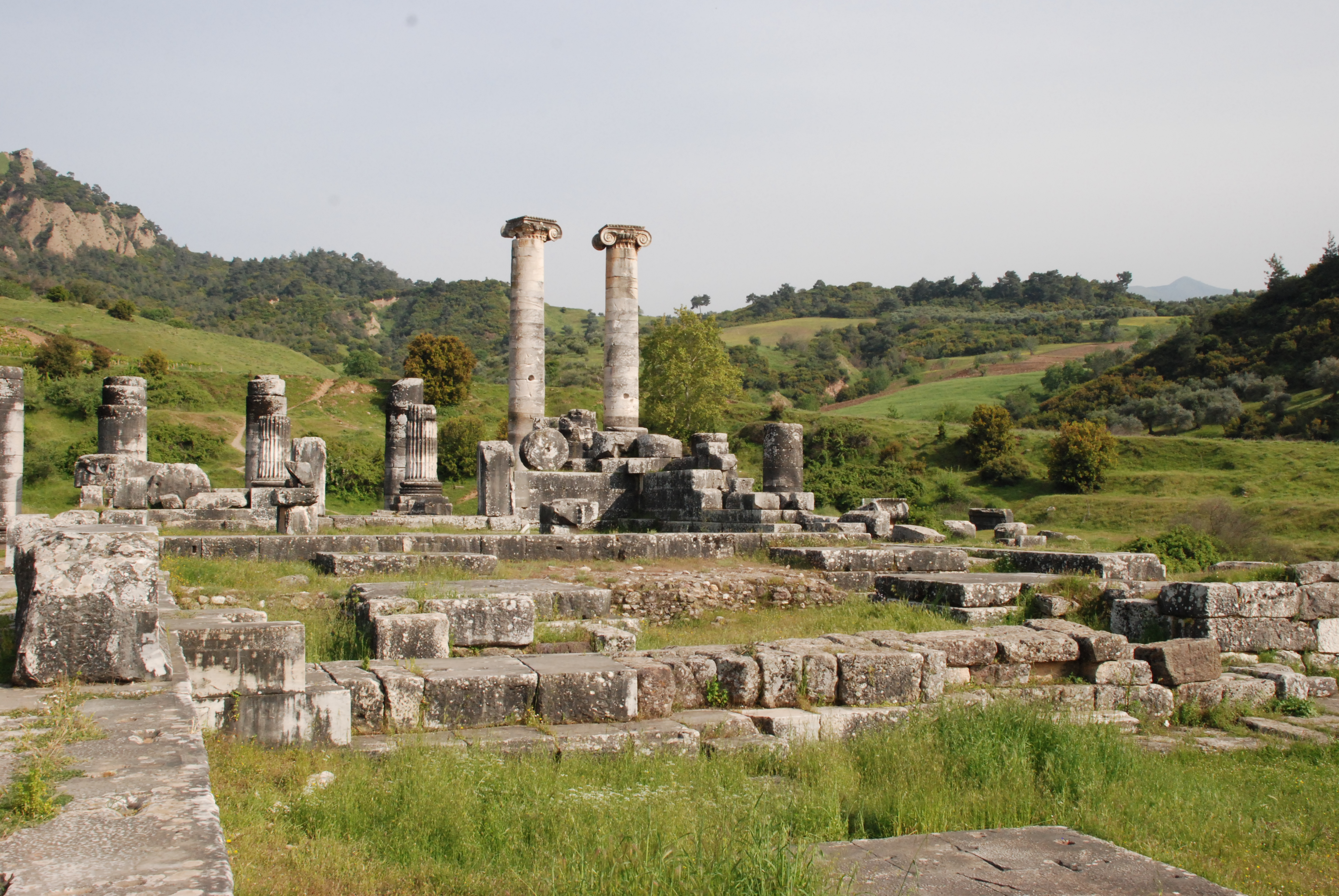 The Temple of Artemis outside Sart (ancient Sardis), Turkey